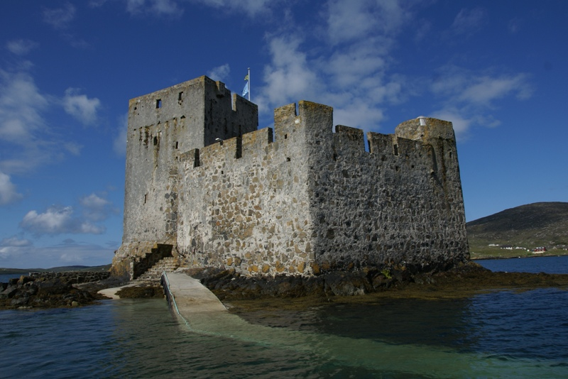 Kisimul Castle, Barra, Scotland